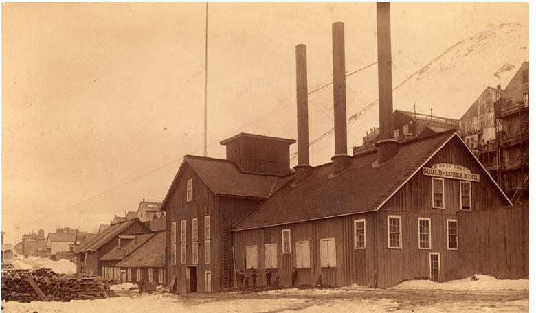 1874. Photograph of the Bonner Shaft of the Gould & Curry Mine, Virginia City; a group of boys stand near the building and part of Virginia City is visible in the background; photographic print, 4.5 x 7.5 inches